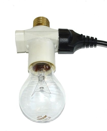 very dangerous double European AC socket with E27 incandescent bulb connector; model: OPG-27 L. 1) As lampholder terminals maximum current is 2-2.5A, 1.1) Electric appliences will not work cause fuse turns off electricity (if fuse current is properly set) 1.2) Lampholder terminals and wires will burn (if fuse current isn't properly set) 2) PE-Connection by its nature not possible, electrical shock is possible. Due to this, a forbidden item.